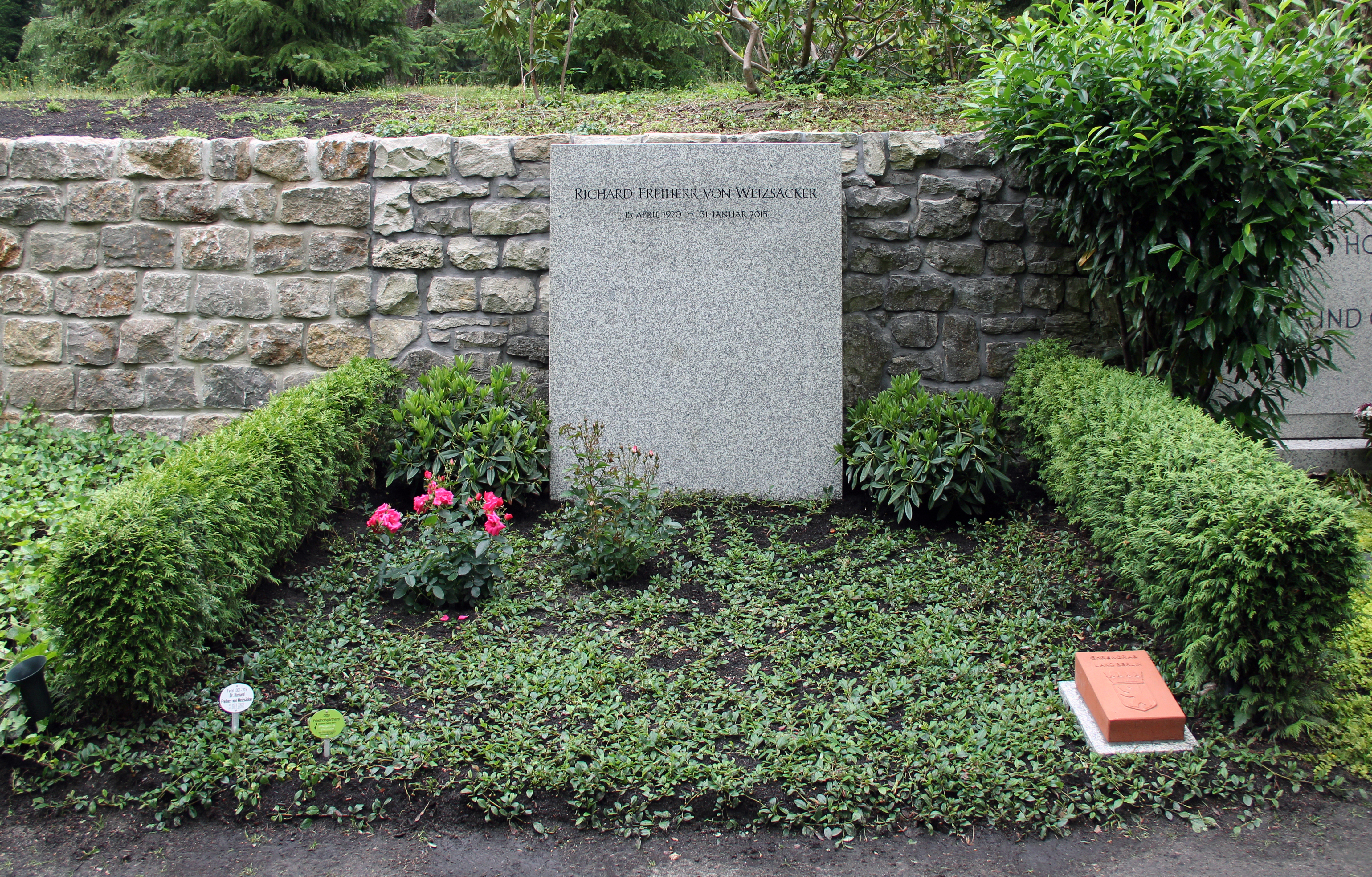 Grave of honor, Richard von Weizsäcker, Hüttenweg 47, Berlin-Dahlem, Germany